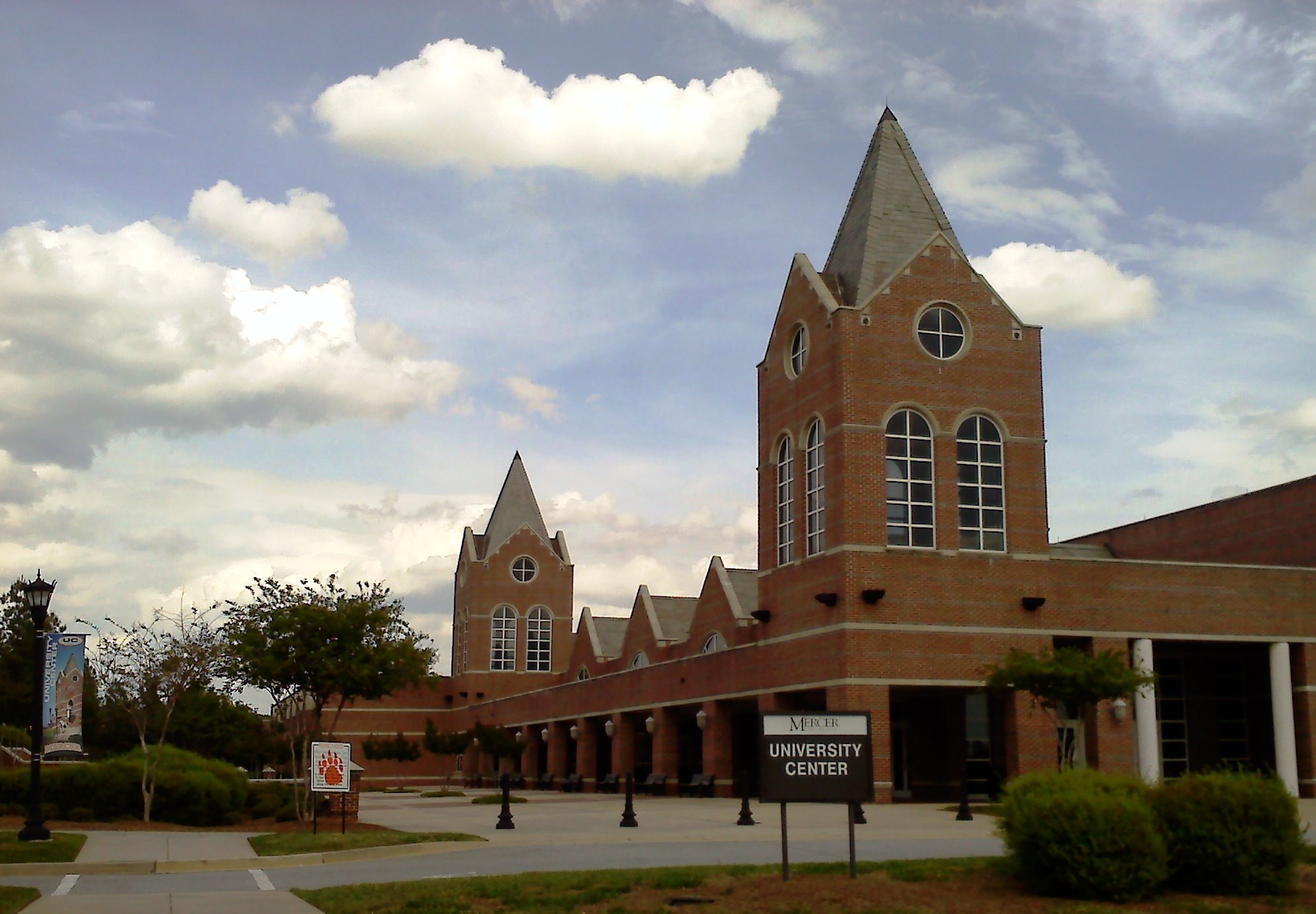 Mercer University's University Center in Macon, Georgia, United States.